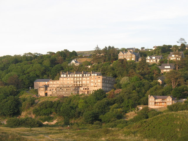 St Davids Hotel Harlech Soon to be demolished.